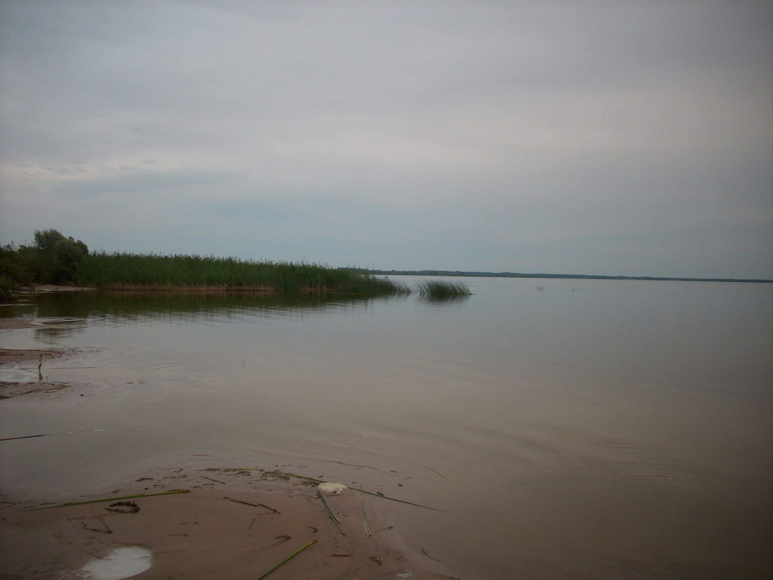 Lubāns-See.